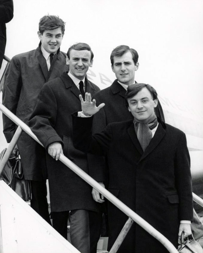 Photo of the New York arrival of Gerry and the Pacemakers, 1964, by a New York photographer.